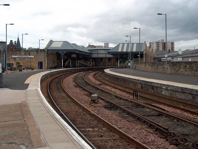 Perth Railway Station